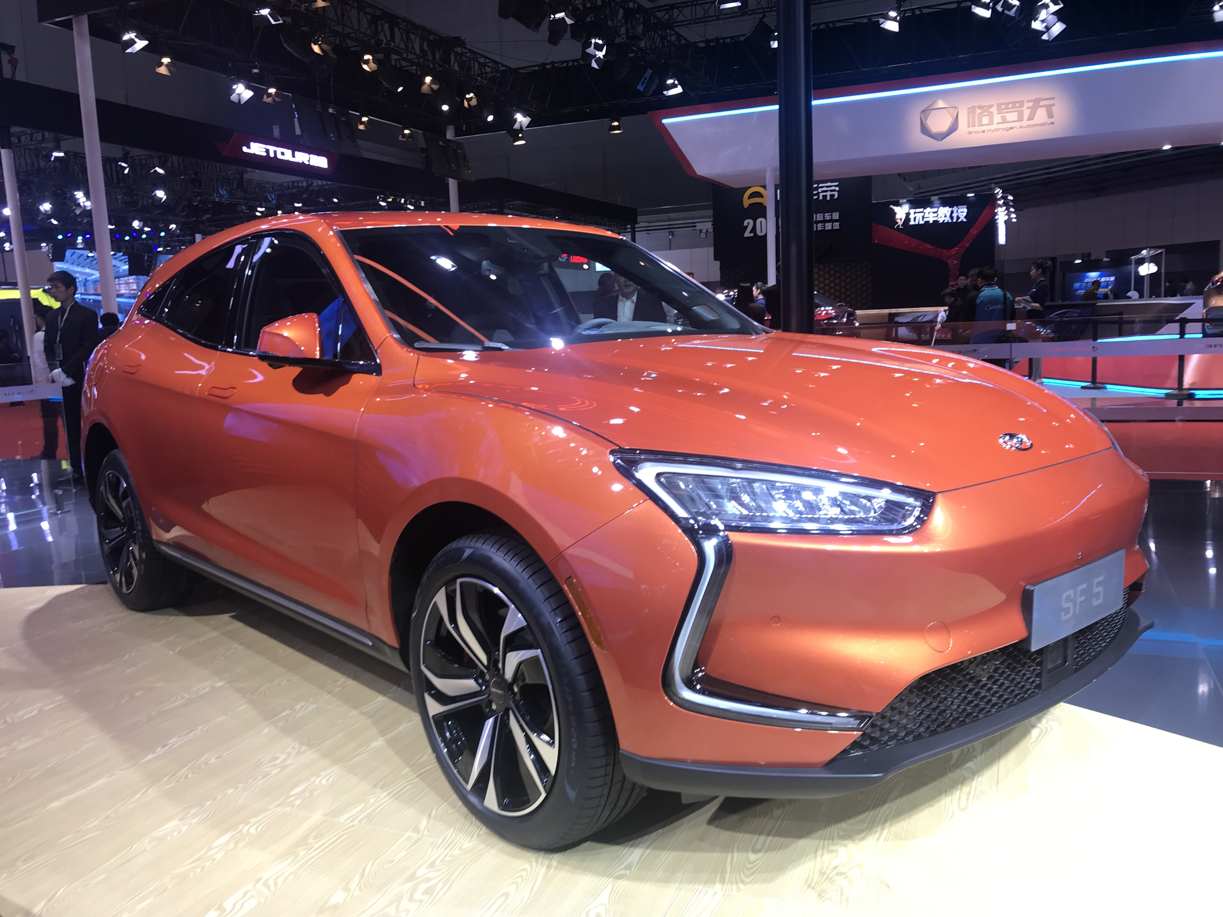 Seres SF5